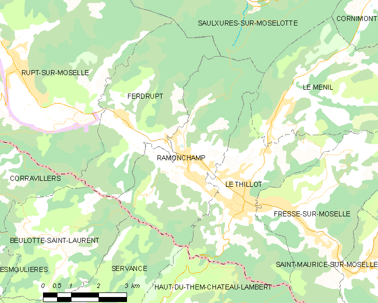 Map of French municipality Ramonchamp